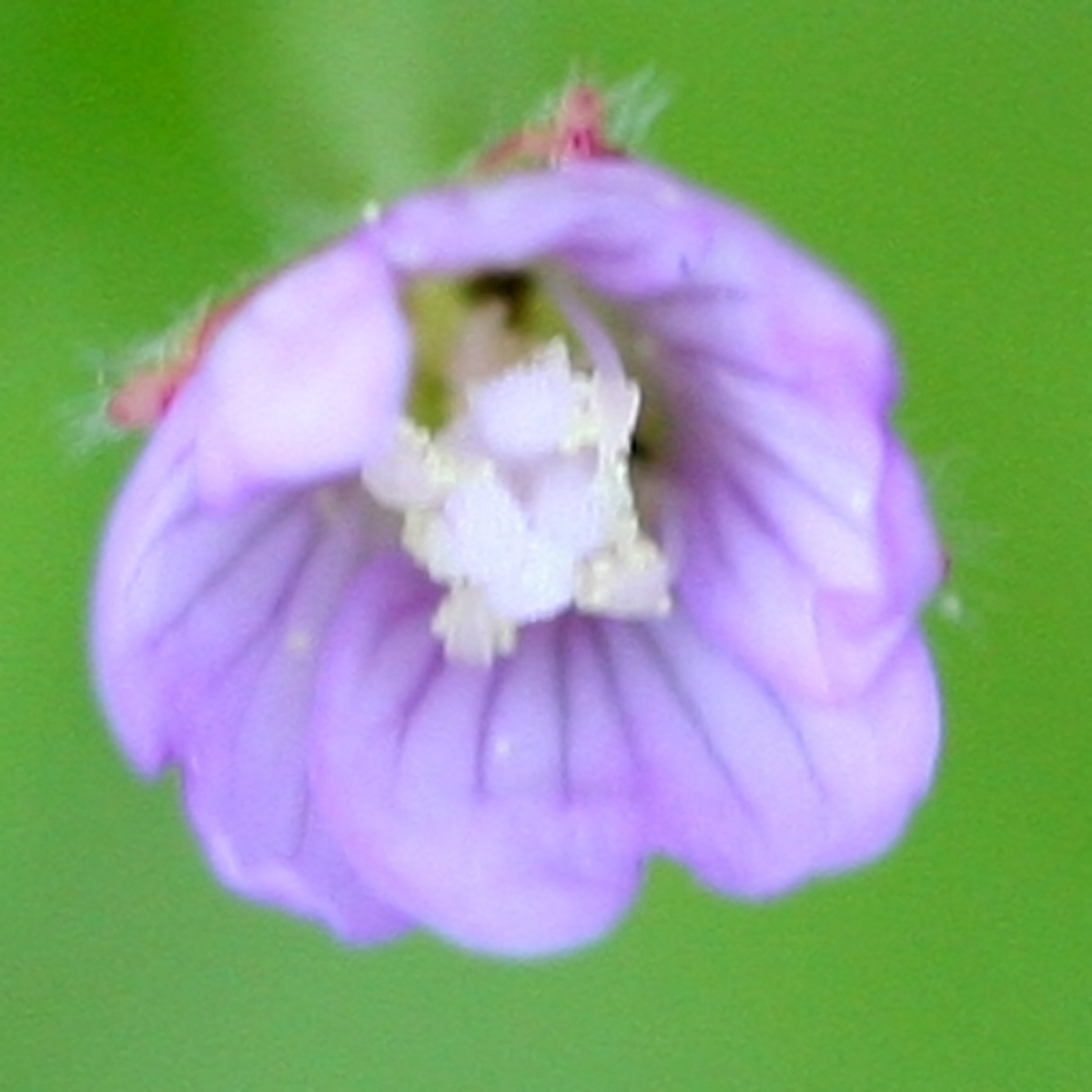 Epilobium ciliatum photographed in the town of Skaneateles, NY